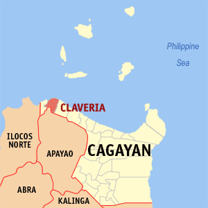 Map of Cagayan showing the location of Claveria